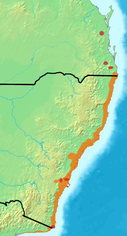 The Distribution of the Eastern Bristlebird The Orange indicates previous range.